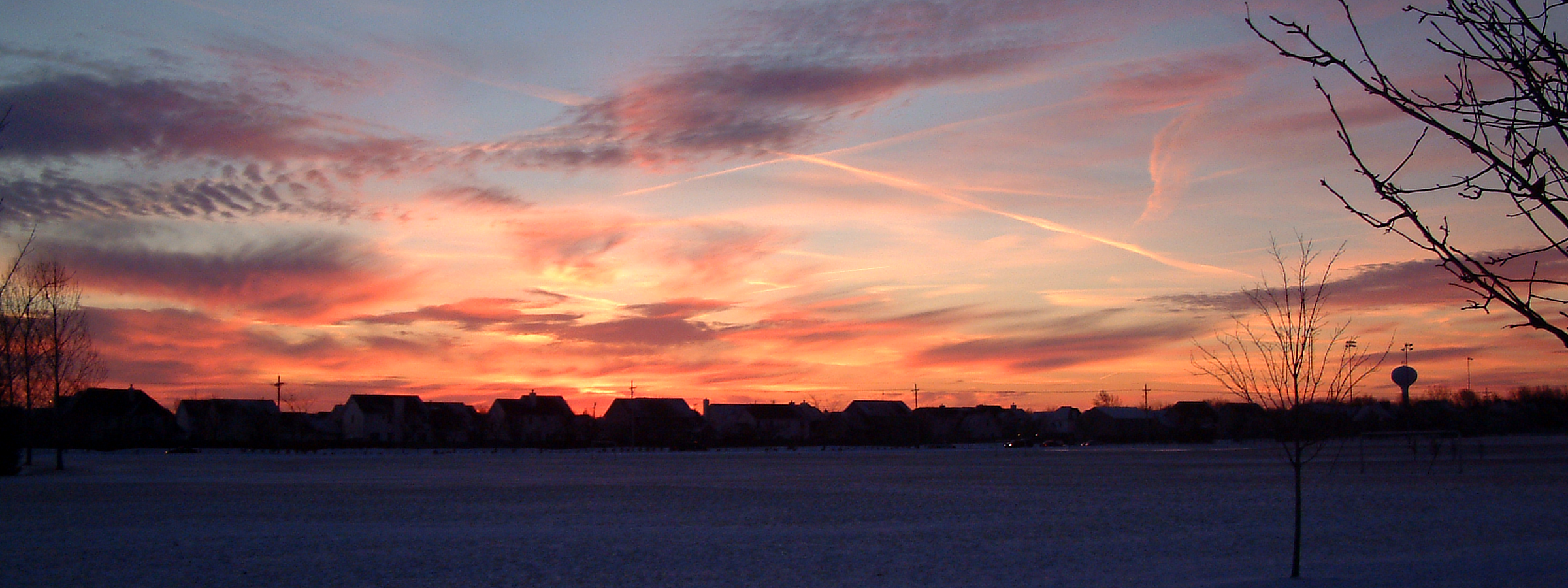 Dawn skies over University Farm, a neighborhood in the city of West Lafayette in Tippecanoe County, Indiana. Photo looks southeast across Cumberland Park.